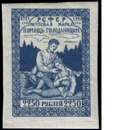 Semi-postal stamp of Soviet Russia, Pomgol, 1921, CPA #28. First Soviet stamp on a medical topic.